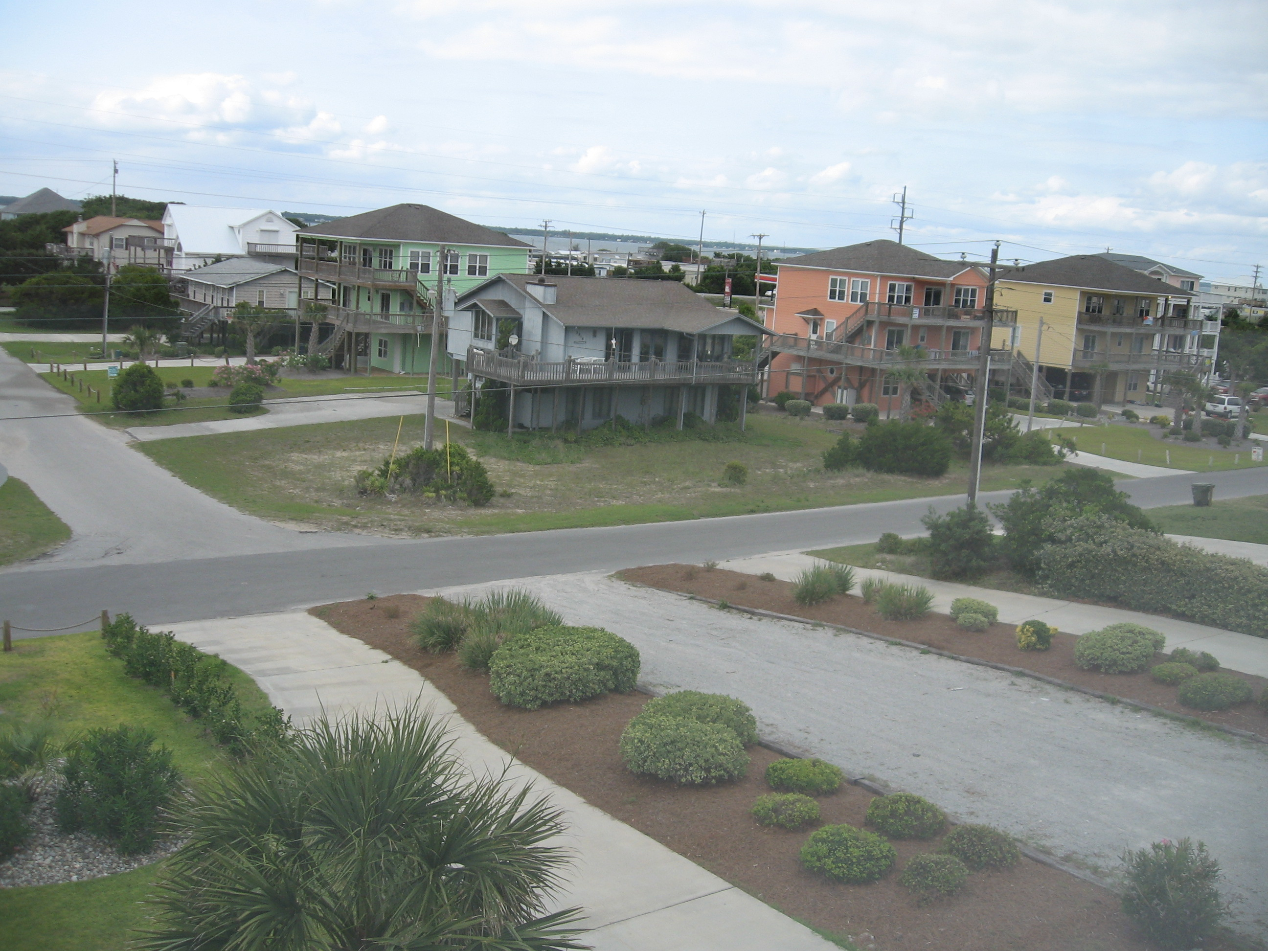 These are houses in Emerald Isle, North Carolina. This picture illustrates the combination of both new and old homes in the town.